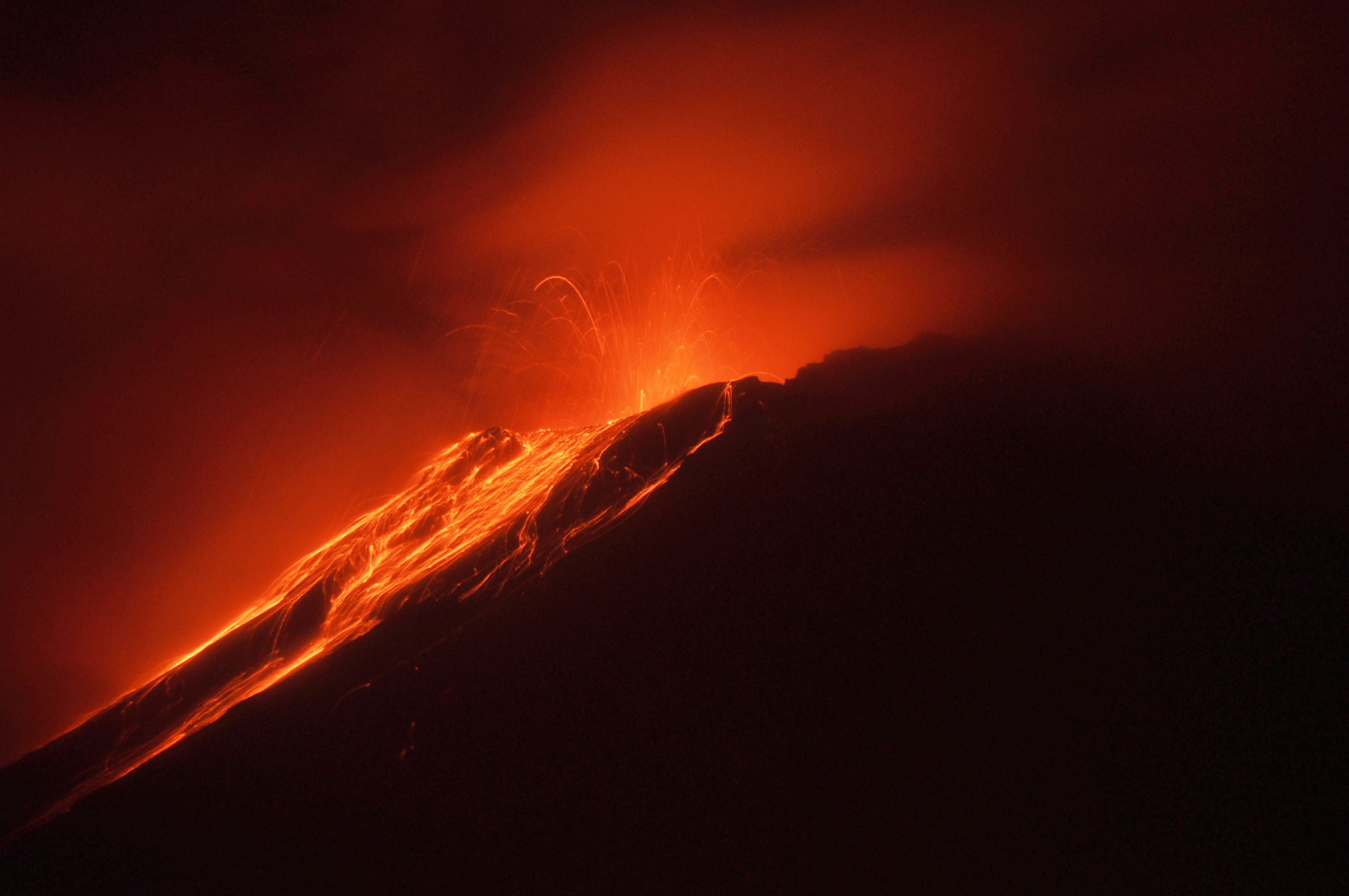 Tungurahua volcano 2011